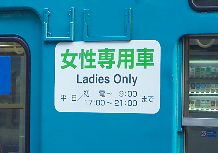 Sign on a JR West train: Ladies Only.